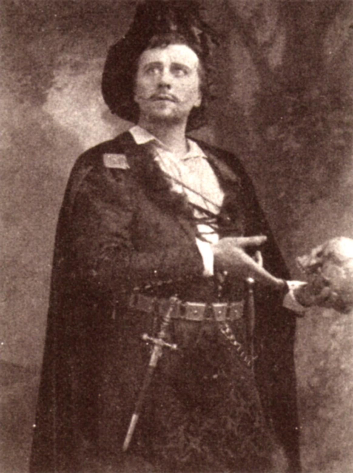 English actor Herbert Beerbohm Tree as Hamlet in c1892